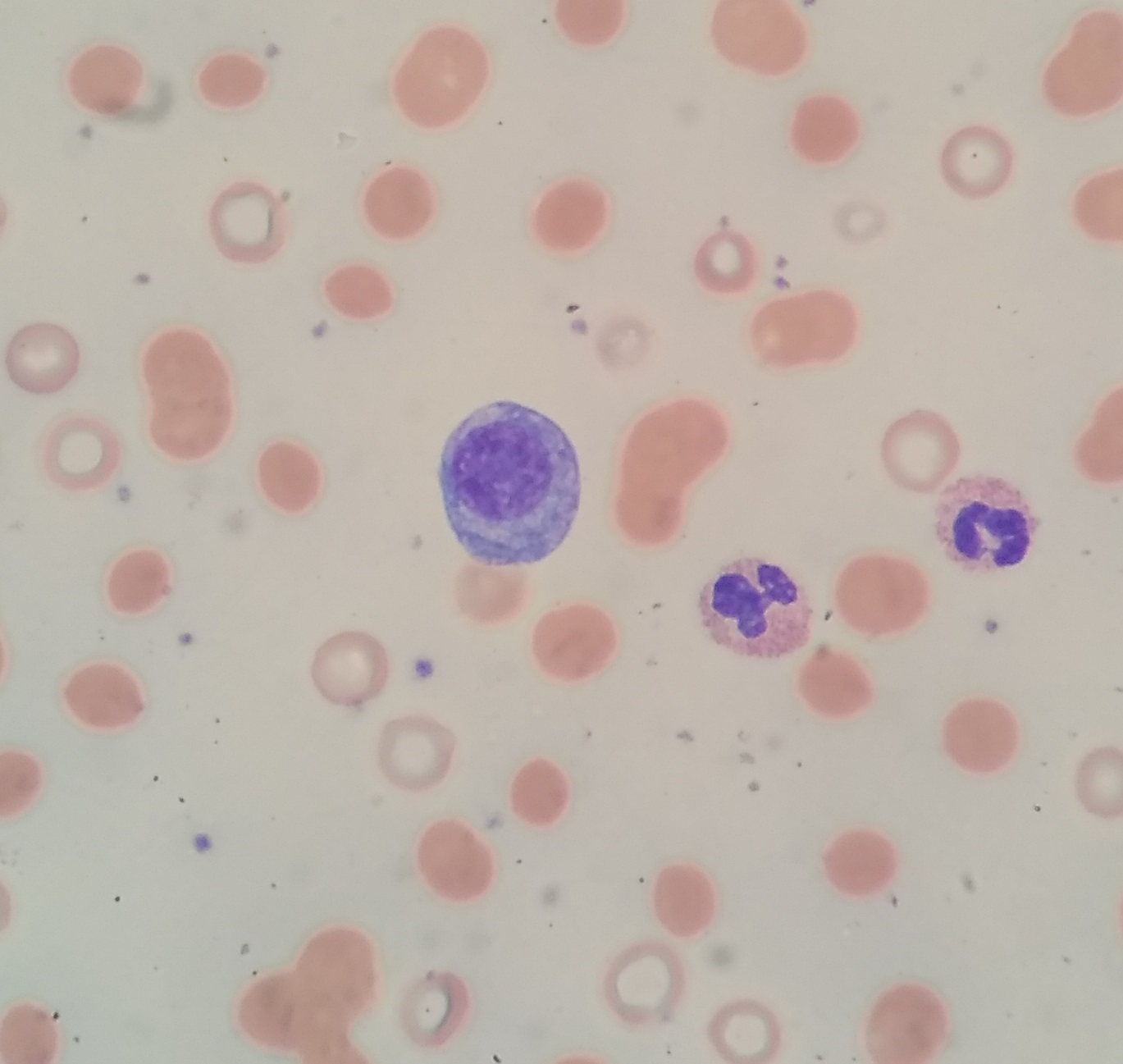 Peripheral blood smear showing findings associated with multiple myeloma: rouleaux, basophilic background staining, and circulating plasma cell